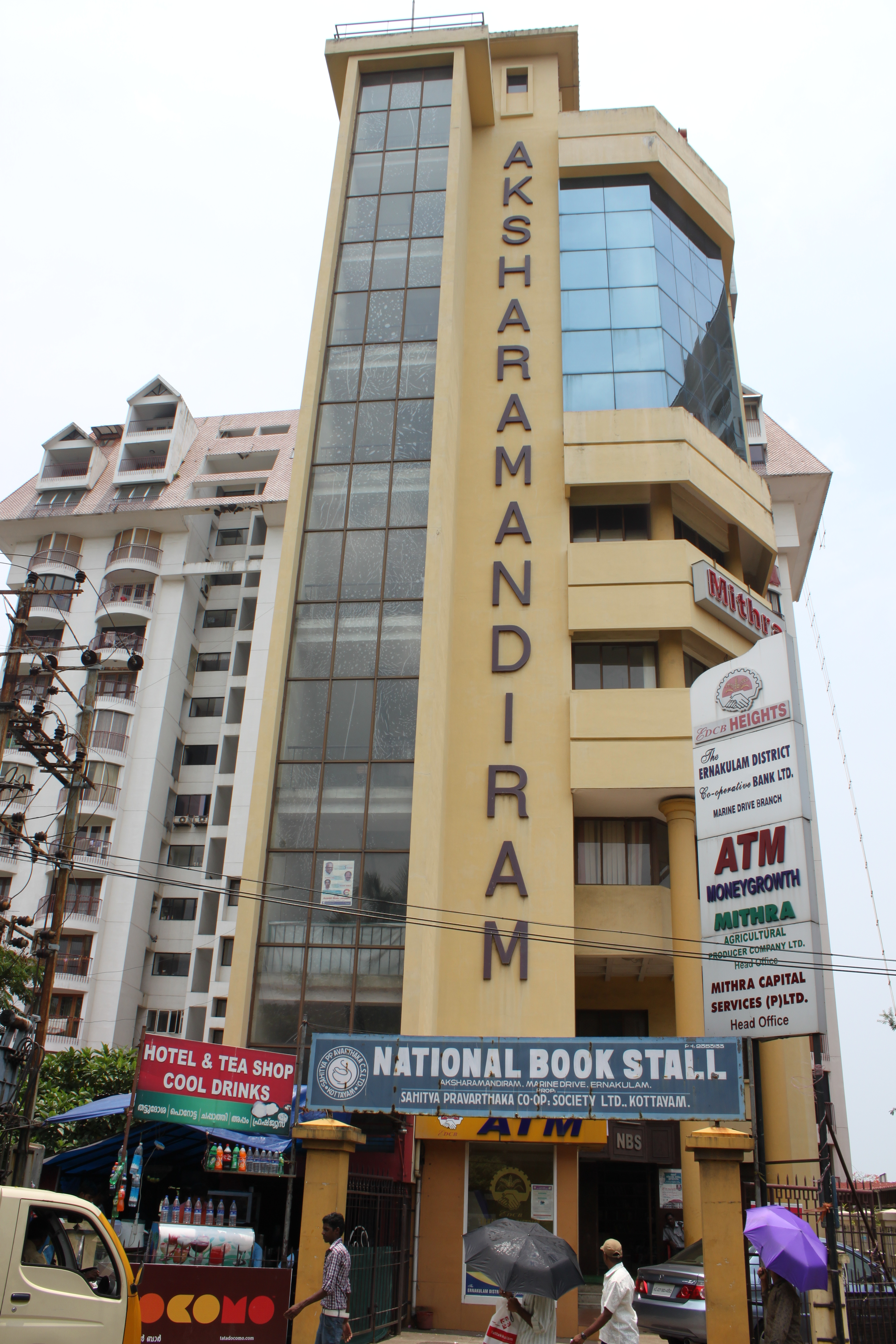 akshara mandiram - ernakulam - marine drive - kerala